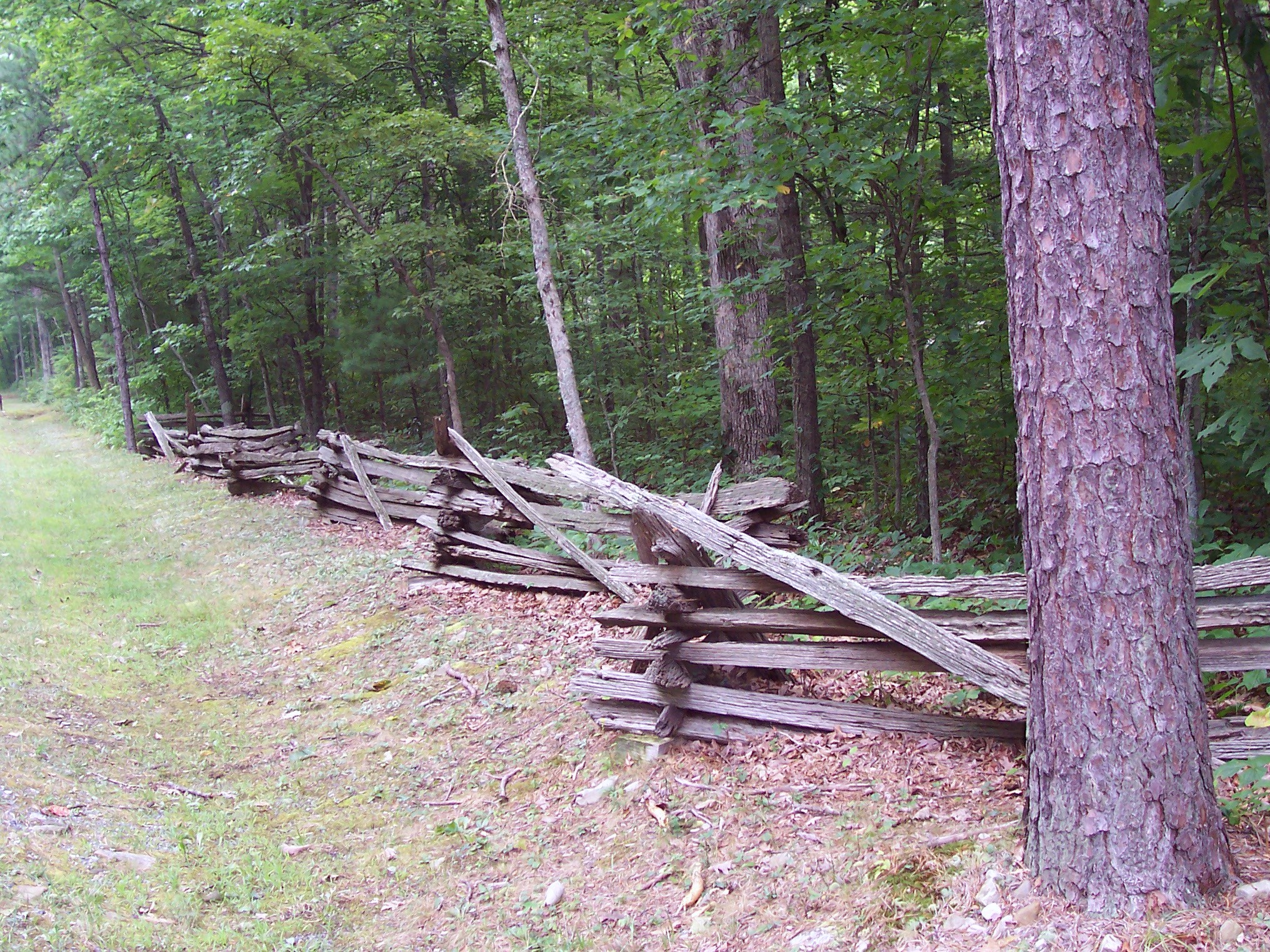 A split rail fence found at the entrance to Sherando Lake, located in the U.S. national forest area known as the George Washington Forest Area.